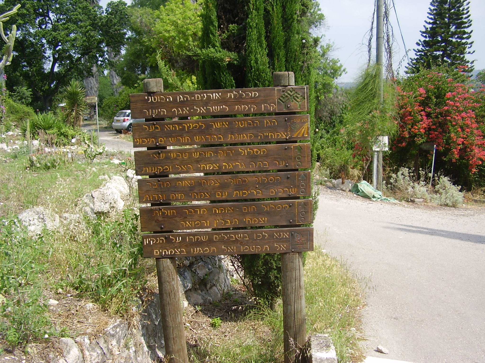 Oranim College Botanic Garden